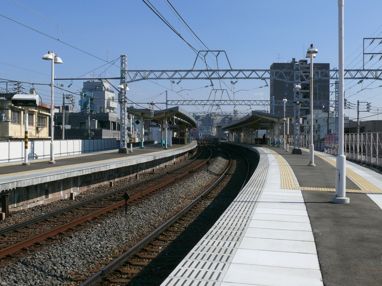 Keisei Electric Railway Keisei Line Senjuōhashi-Station premises(Japan,Tokyo). See also Ja:千住大橋駅 for more information(written in Japanese). 京成本線千住大橋駅のホームを上野寄りから望む。 駅の所在地は東京都足立区千住橋戸町。